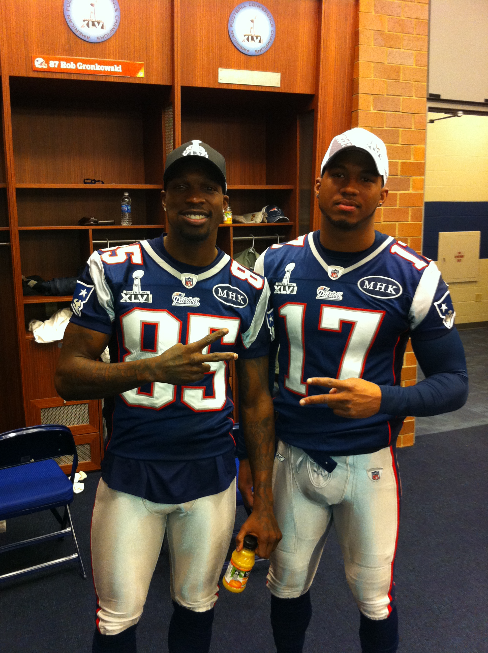 Davis and Ochocinco in 2012 at Superbowl 46